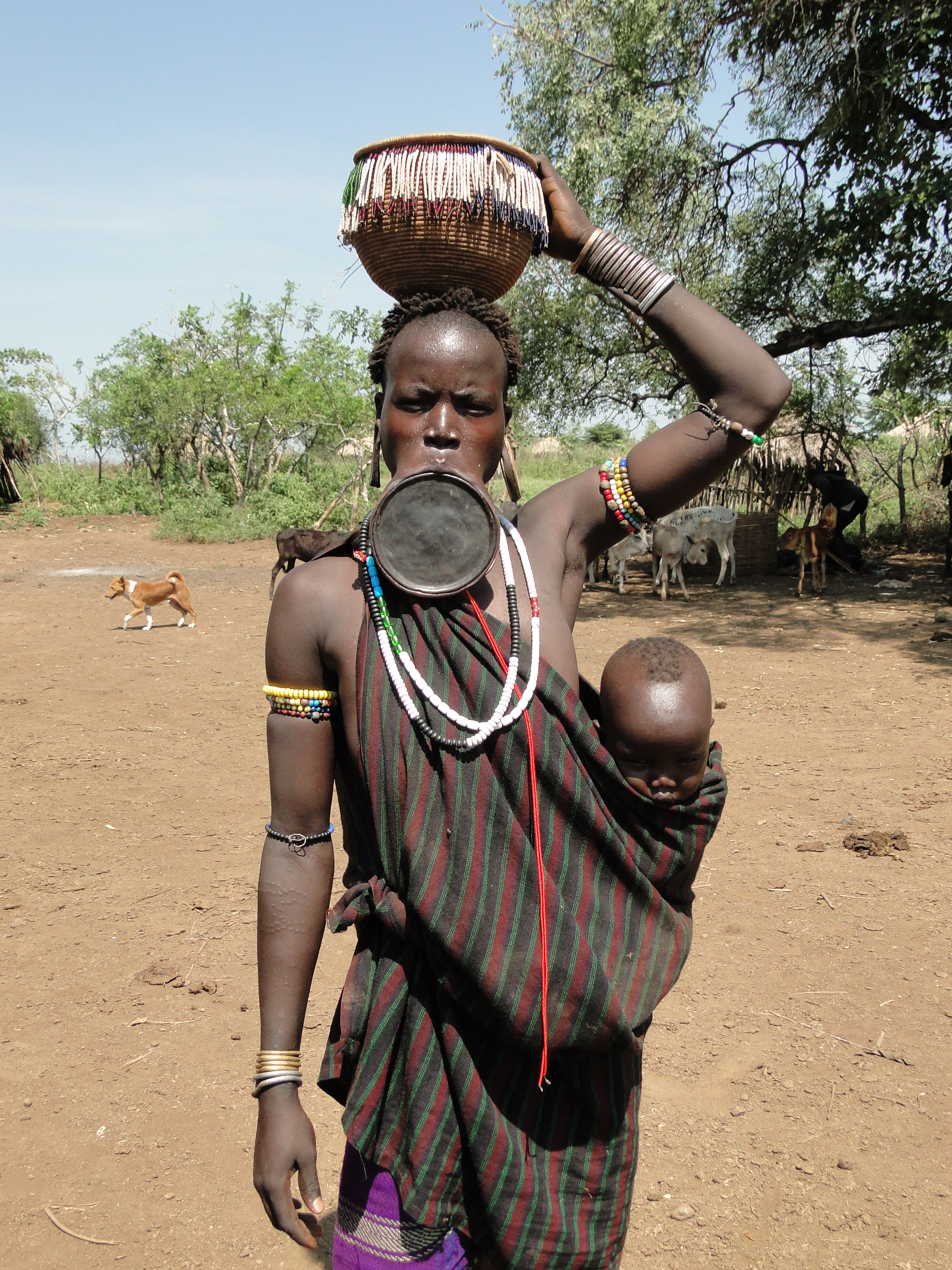 Mursi woman and her baby in Mago National Park, Ethiopia